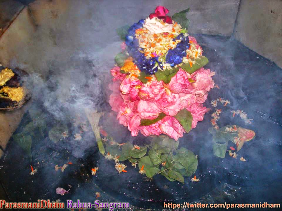 Monday Shringaar of parasmaninath Linga